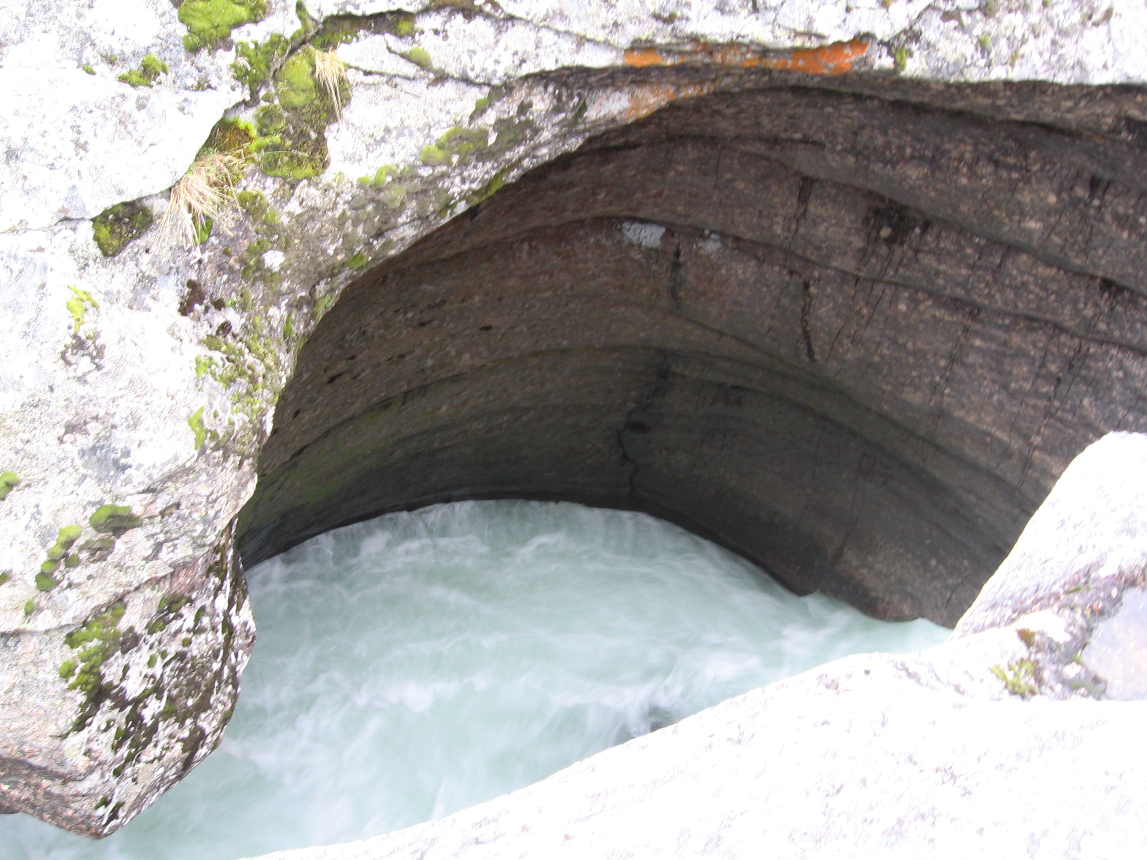 Magalaupet, Giants kettle in the Driva River in Norway.